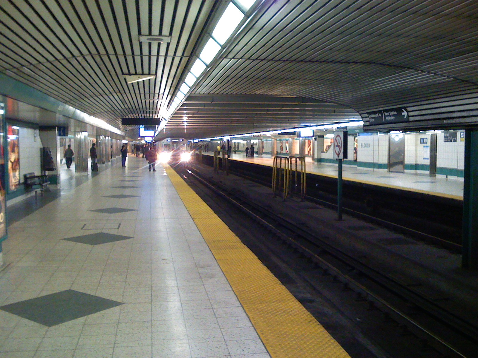 Wide platforms at Bloor subway station in Toronto